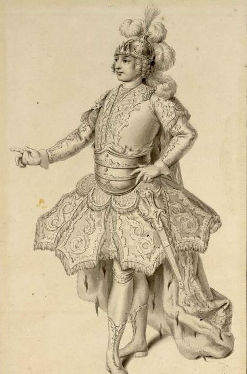 Antigono by Johann Adolph Hasse (staged at Dresden Court Theatre 1744) Costume designs by Francesco Ponte (b. 1725) - Antigono (sung by Angelo Amorevoli) fig. 2 of 9 (+title page)